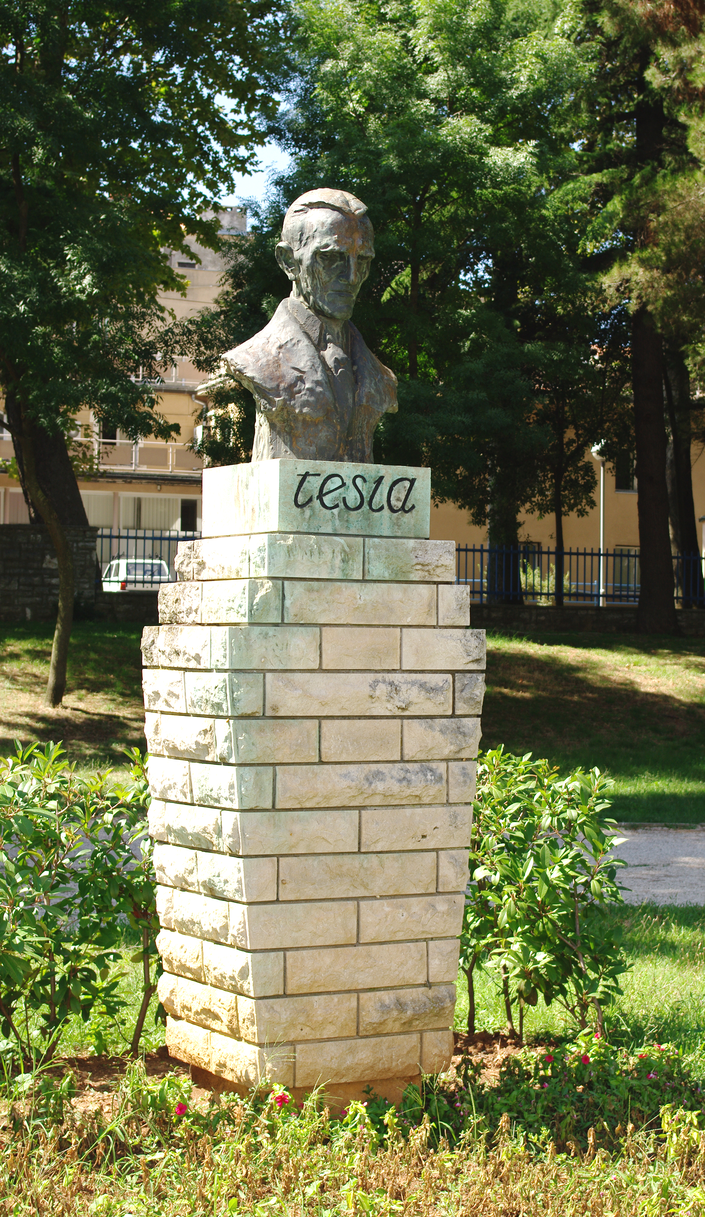 Bust of Nikola Tesla in Pula